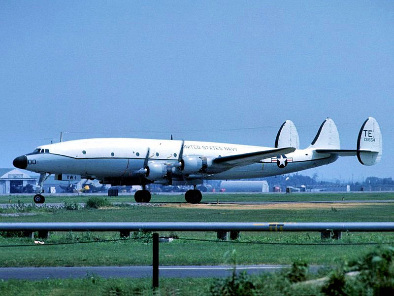 Military Air Transport Service Lockheed R7V-1 Bn 131654, about 1960 (United States Navy Photo)